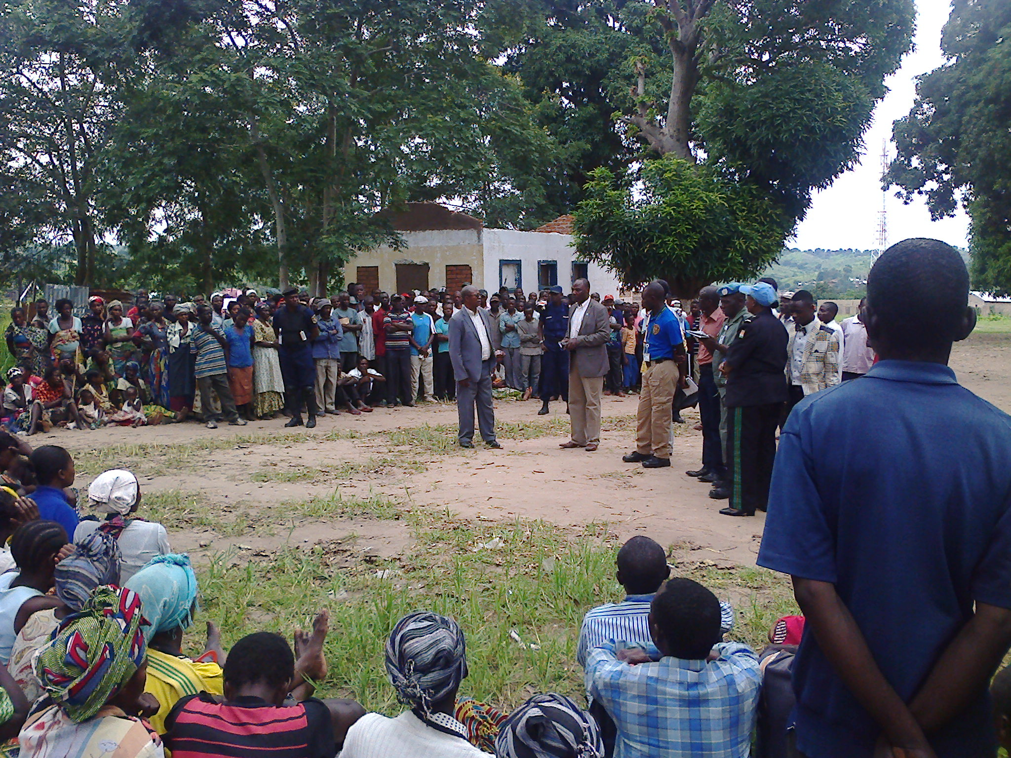 Internal displaced persons (IDPs) from the villages of Nyunzu Territory and surrounding areas who have fled to Kalemie are visited by United Nations Development Programme representatives.